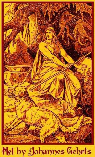 Hel (sometimes Anglicized or Latinized as Hela) is the ruler of Hel, the Norse underworld.